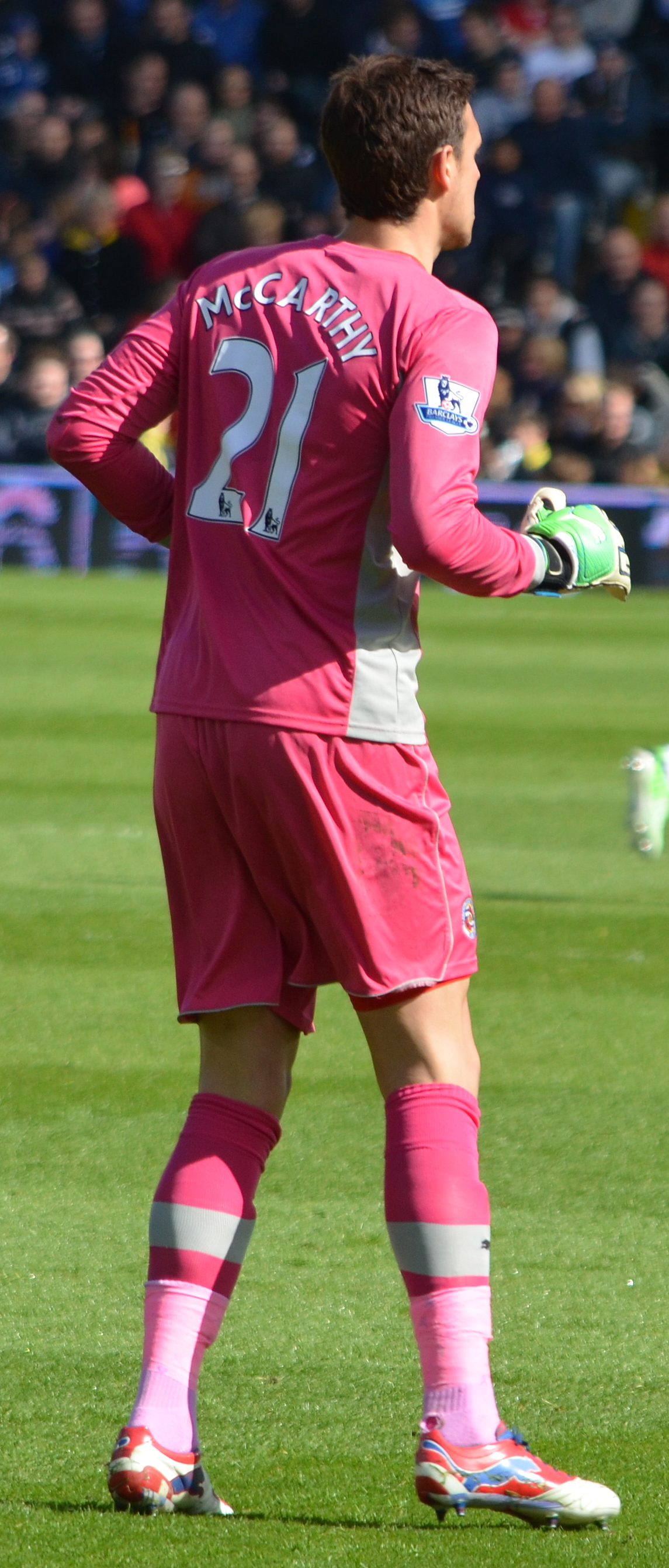 Alex McCarthy. Image cropped from original at flickr.